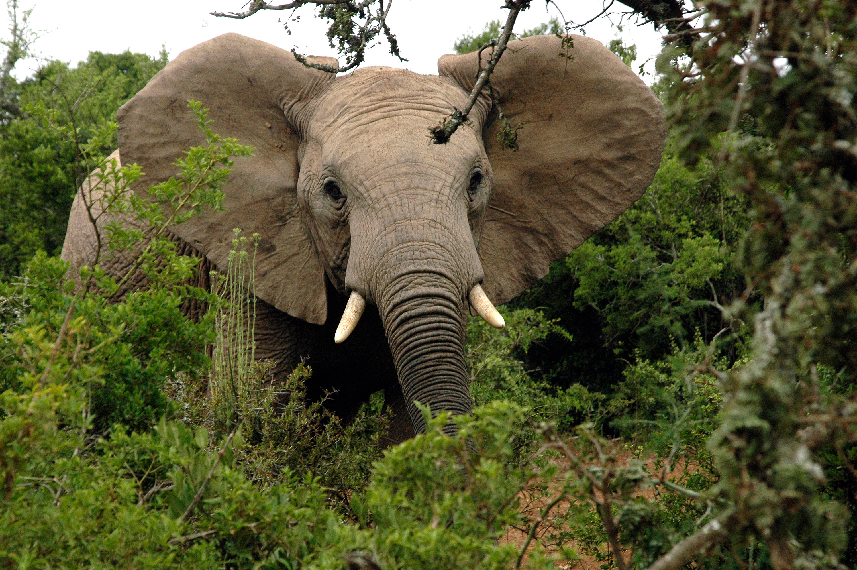 An elephant in the Addo Elephant Park, South Africa